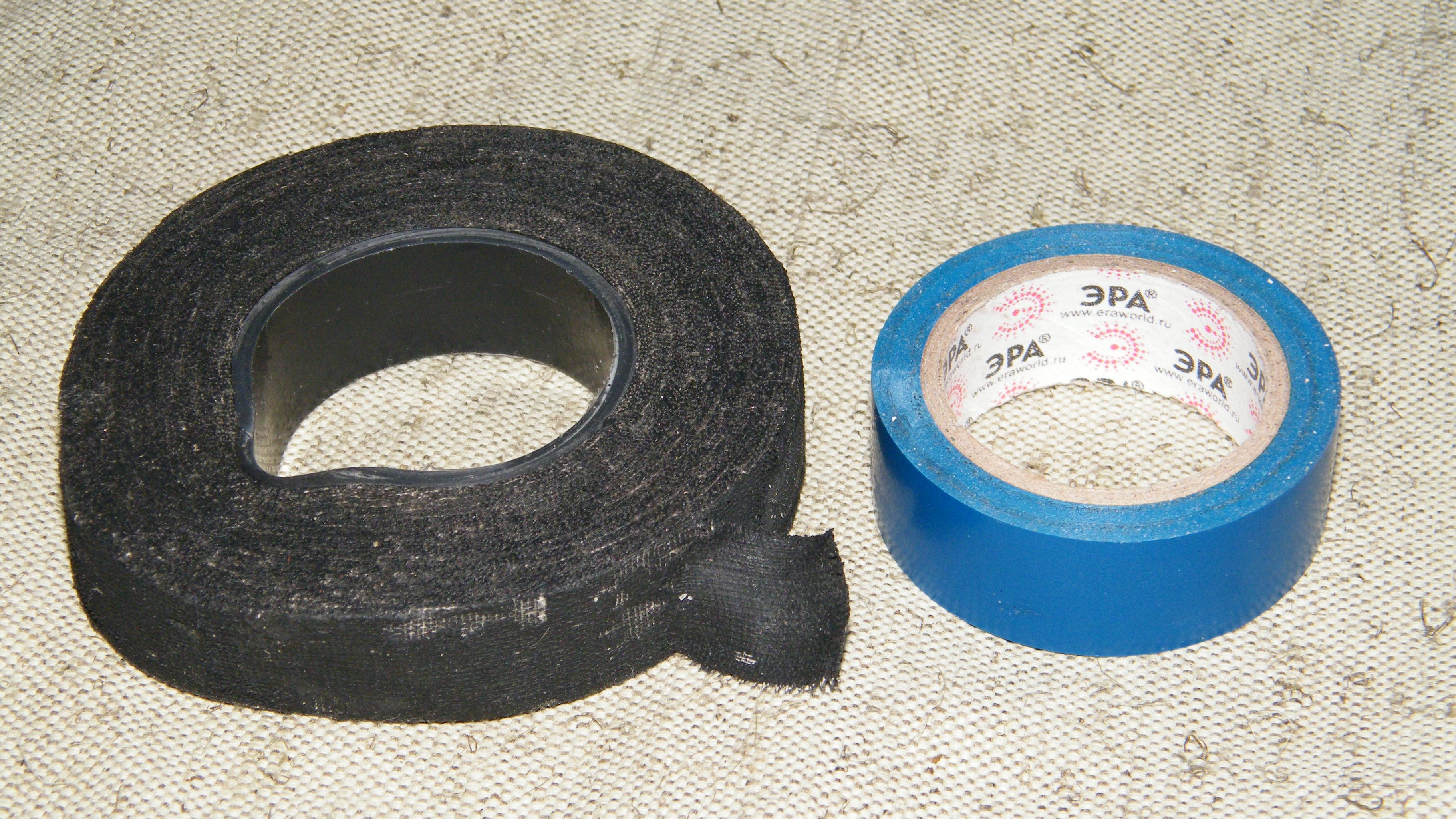 Electrical tapes